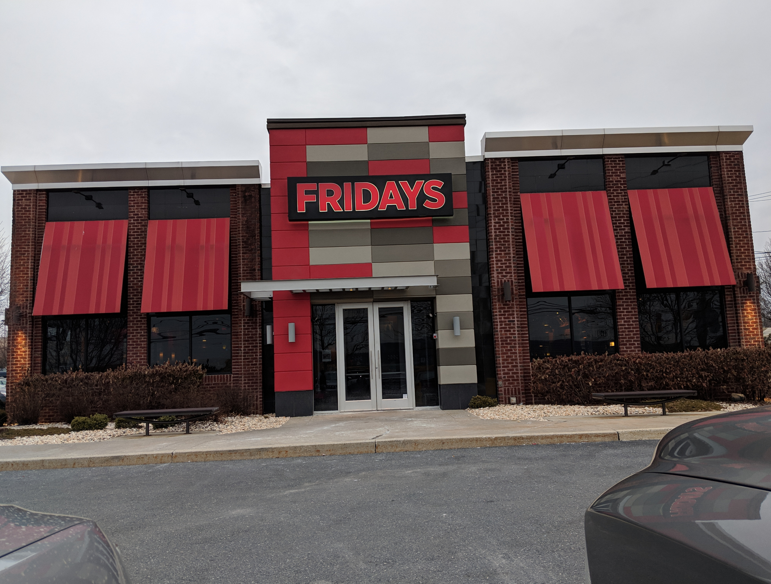 A modern TGI Fridays location in Easton, Pennsylvania, U.S.